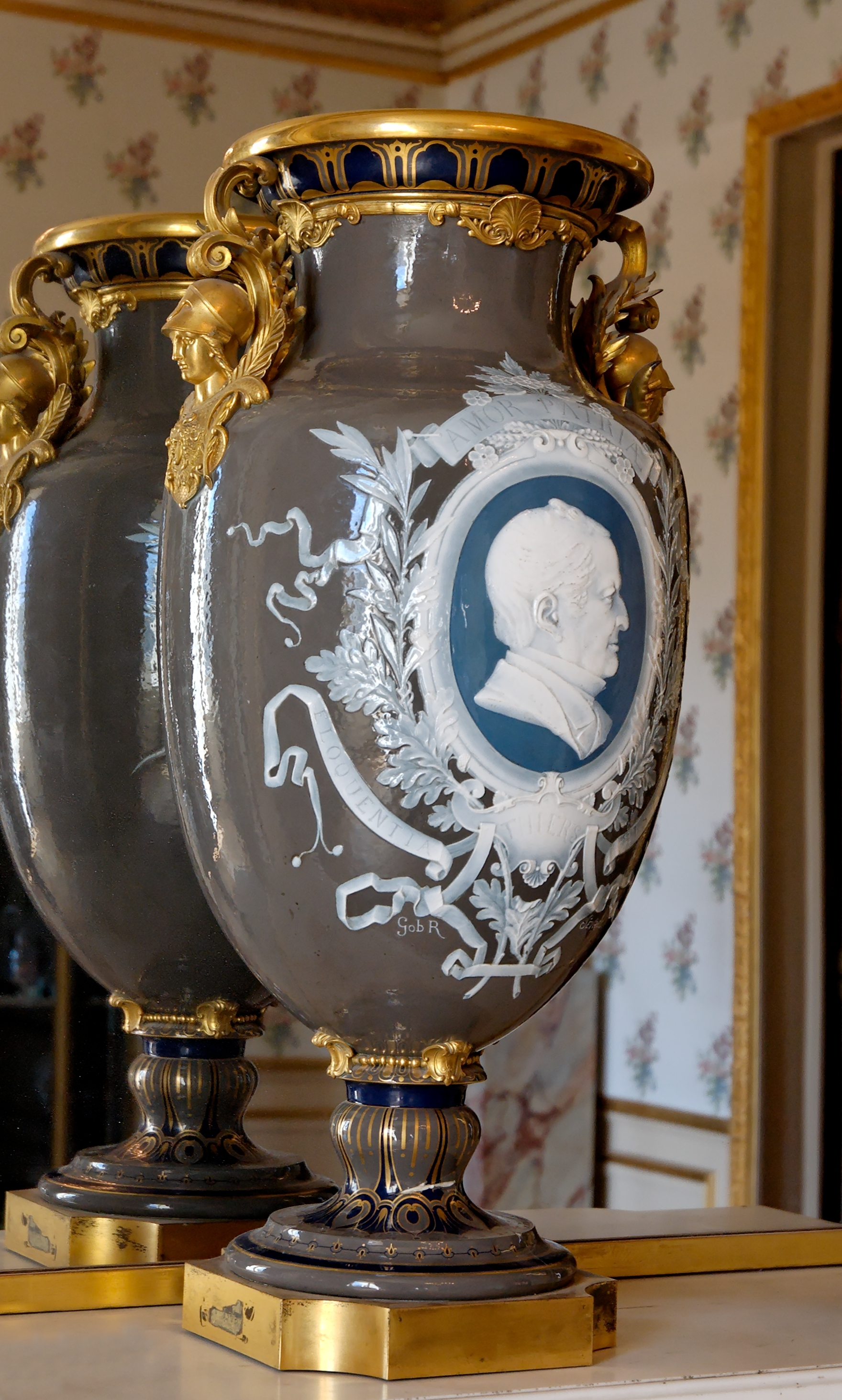 So-called "vase de la Vendange" (vase of the grape-harvest") with a portrait of Adolphe Thiers. Hard-paste porcelain and gilt bronze, 1873–1874.